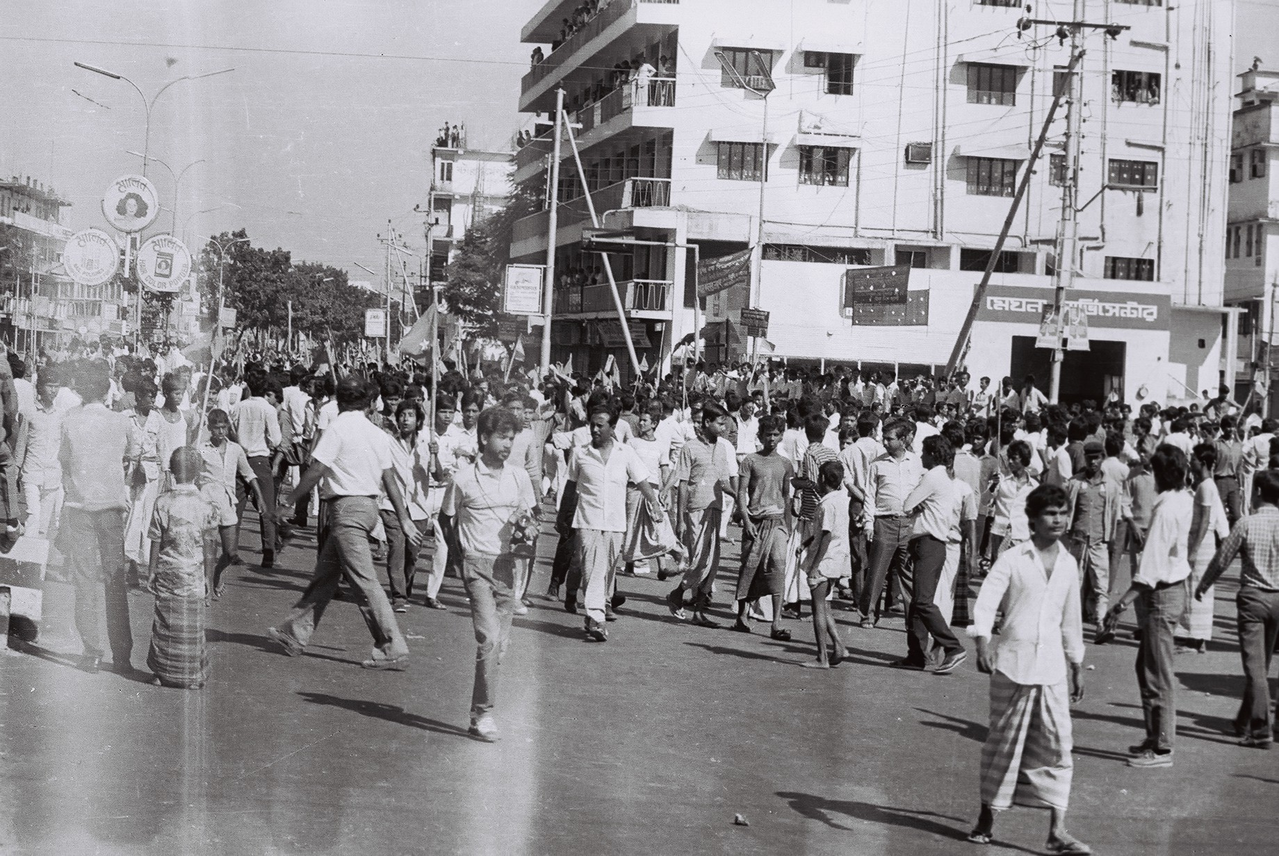 10 November 1987 protest for democracy in Dhaka